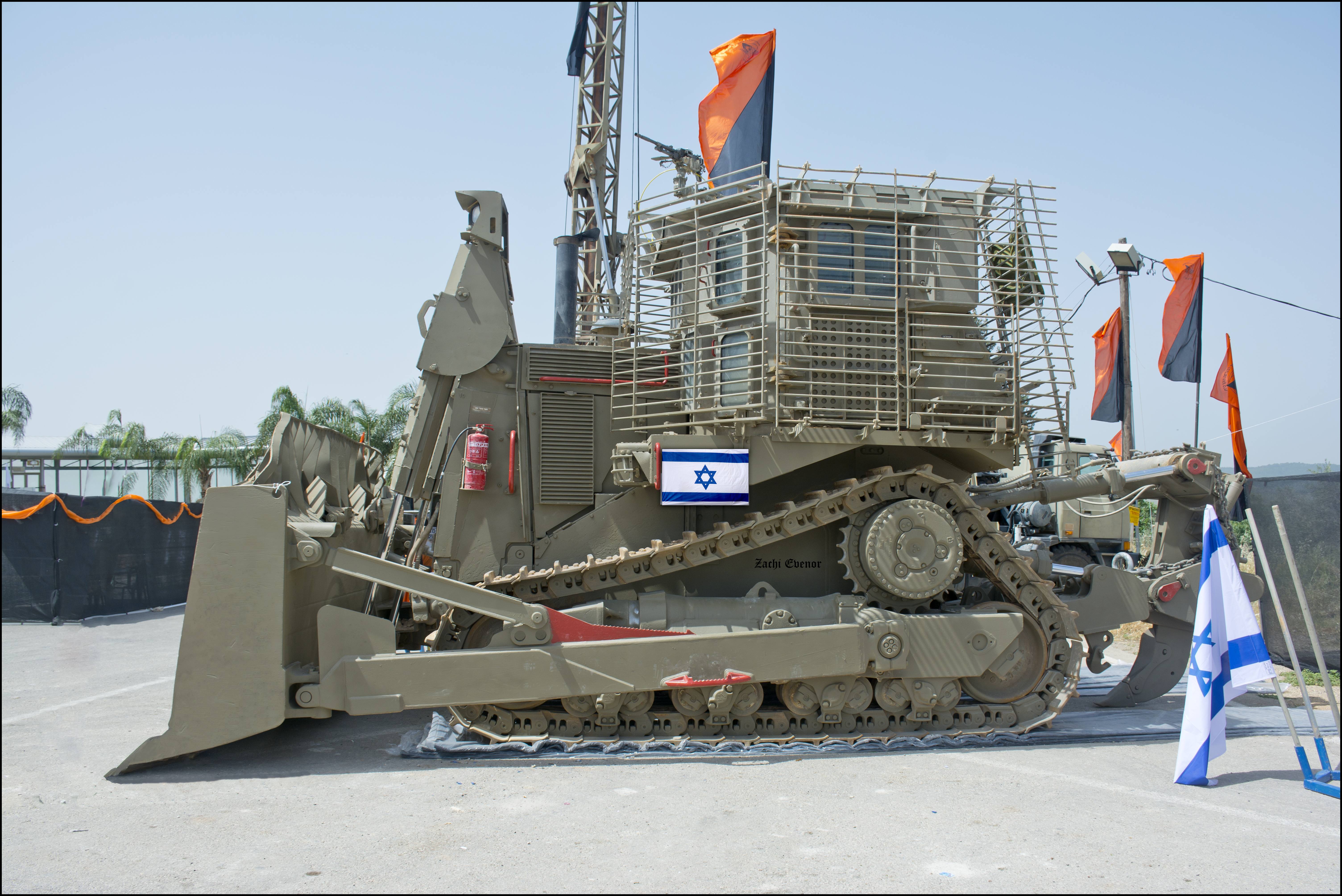 IDF Caterpillar D9R armored bulldozer, Yad LaShiryon, Israel 70th Independence Day, 2018